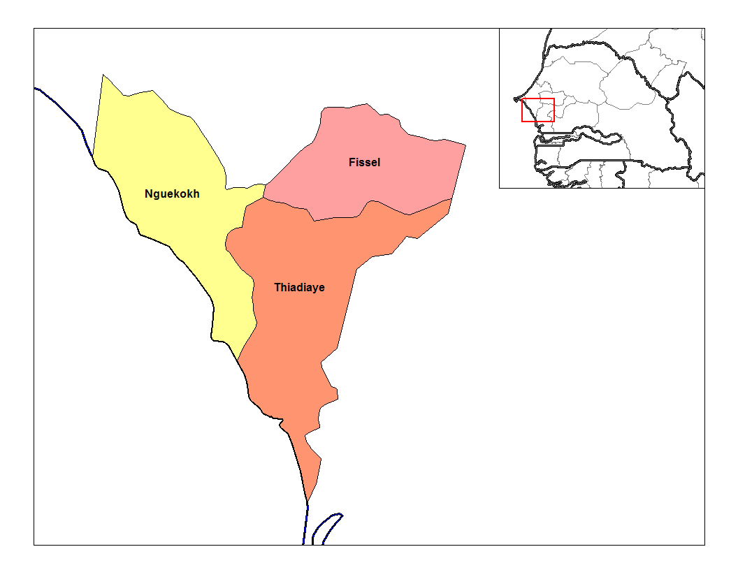 Map of the arrondissements of M'Bour department in Senegal.